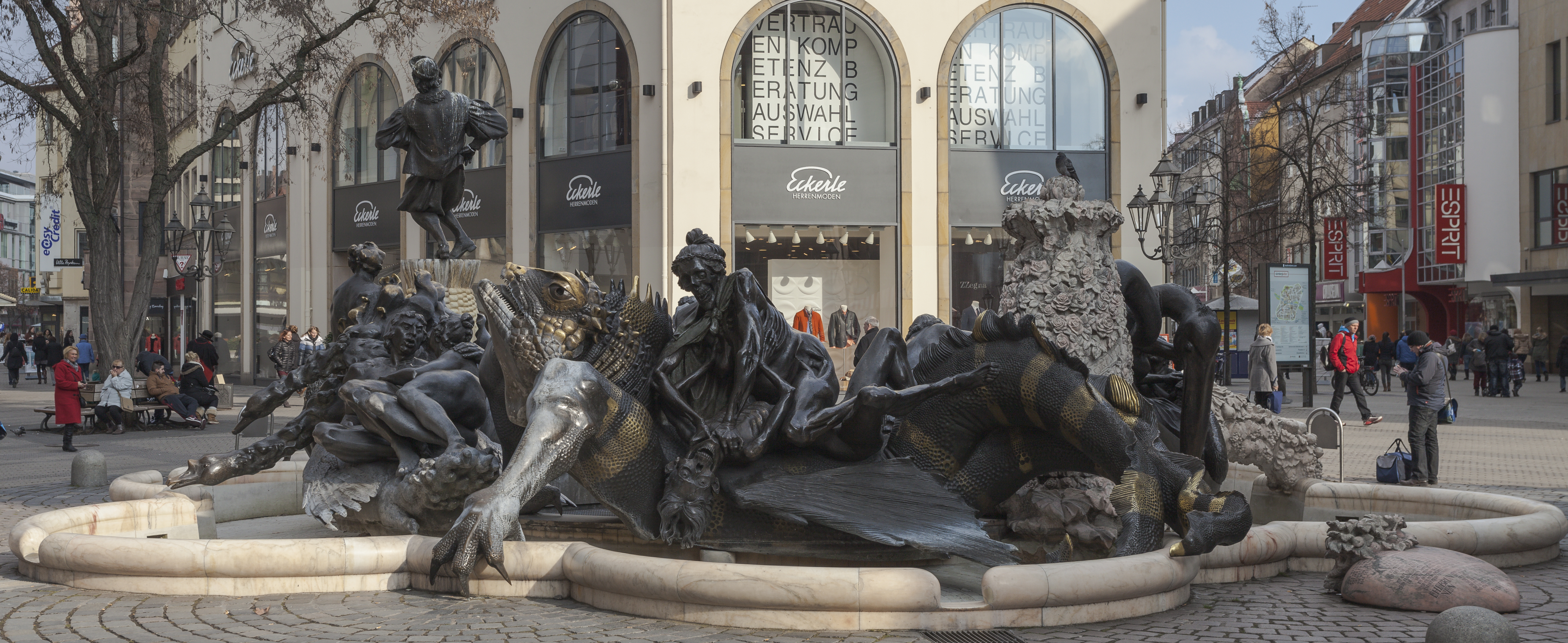 Marriage Roundabout (Jürgen Weber, 1984), Nuremberg, Germany